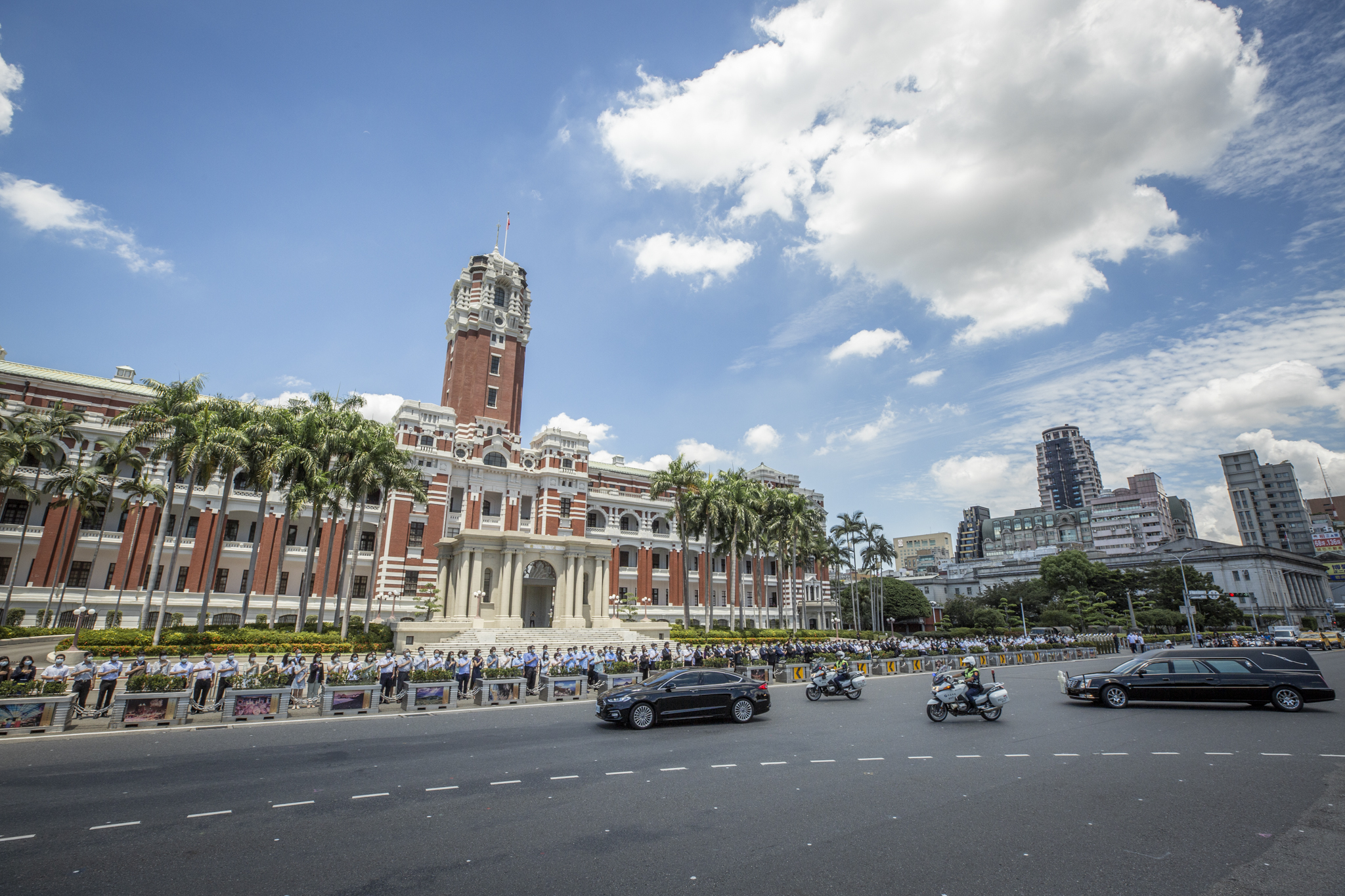 Official Photo by Mori / Office of the President